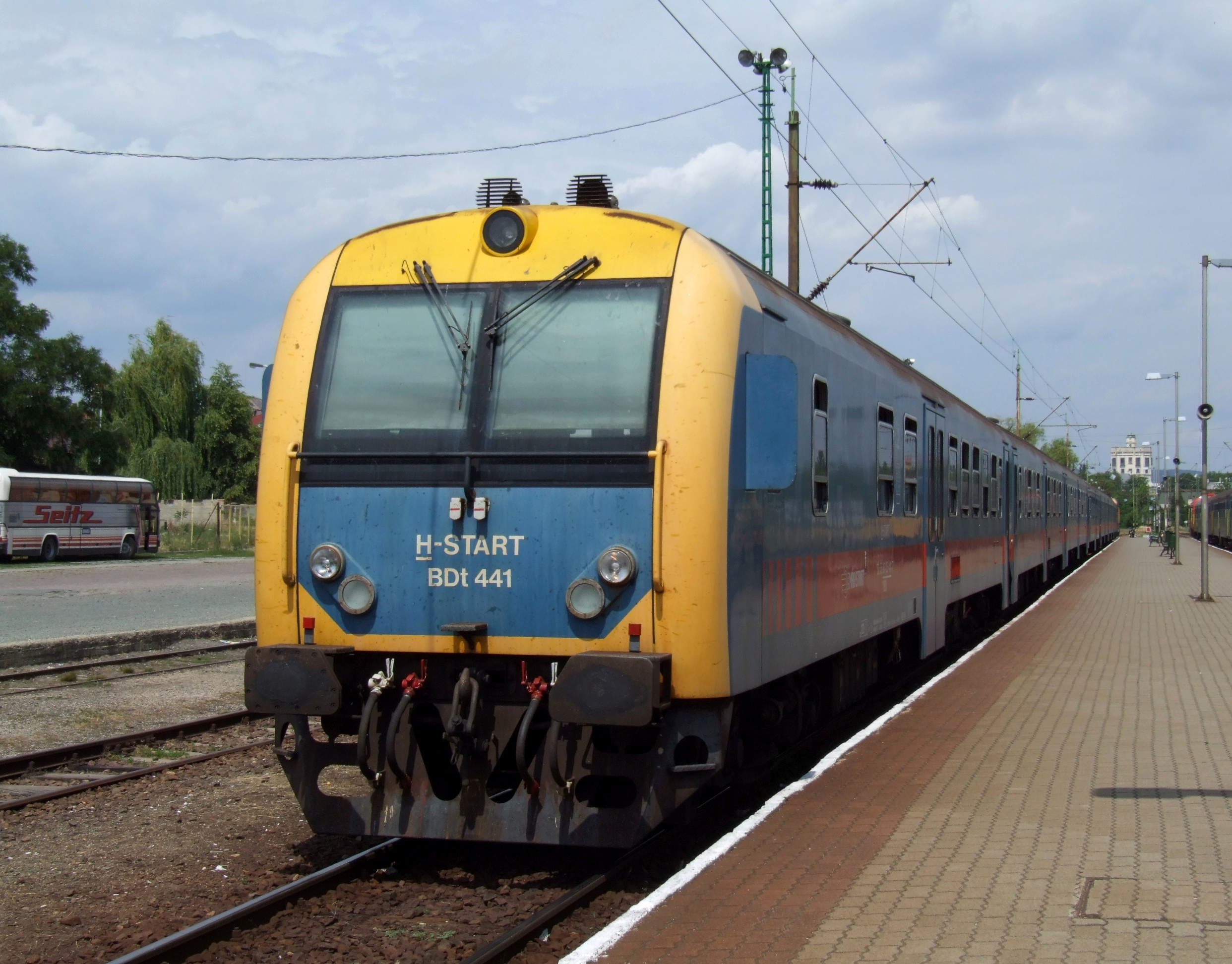 Hungarian driving railway carriage BDt 441 in Eger